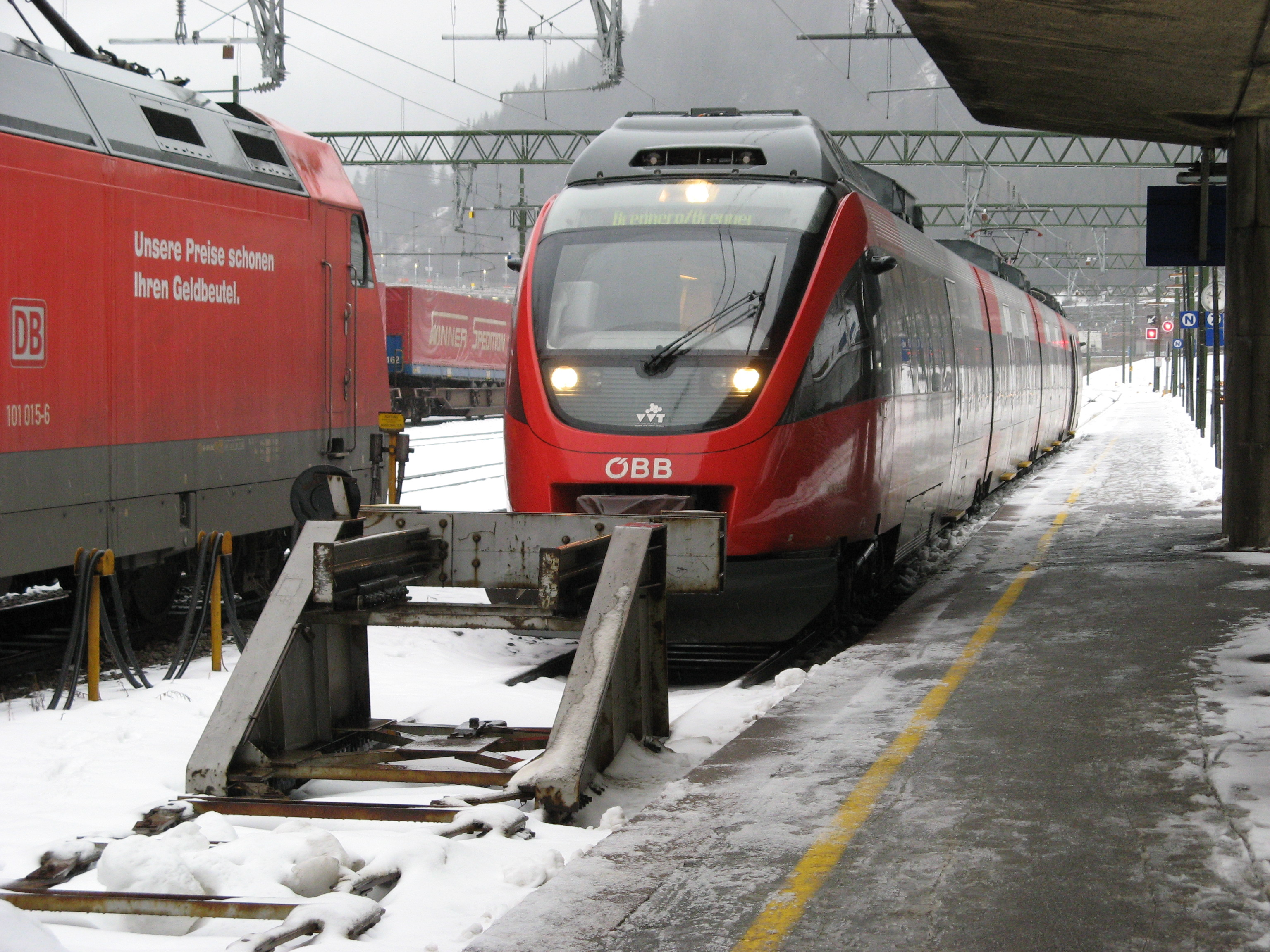 ÖBB Klasse 4024 (Talent) EMU at Brennero, having arrived from Innsbruck, 12 January 2008